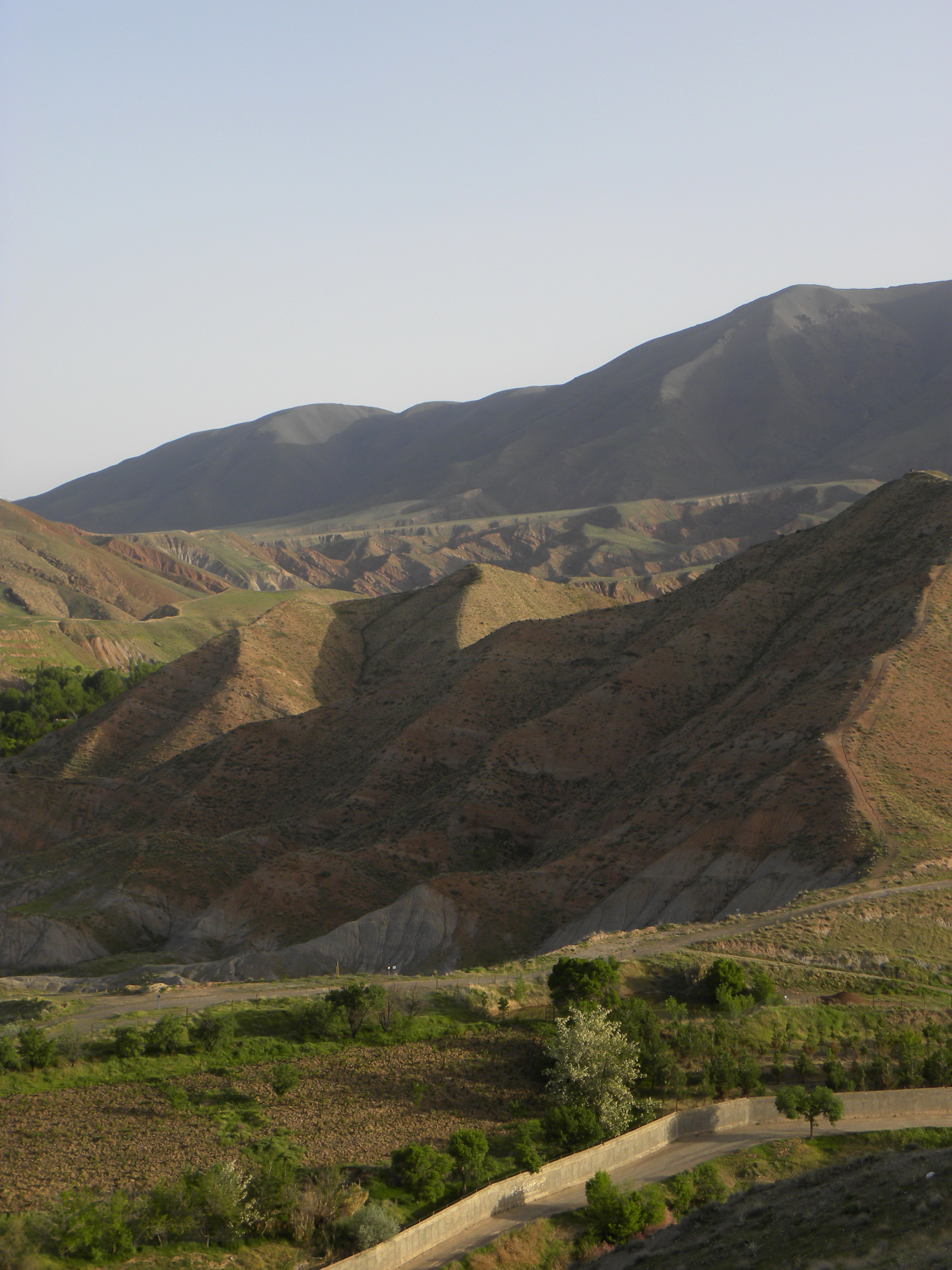 Nature of Nishapur